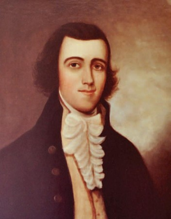 Portrait of Richard Bland Lee I (1761-1827)